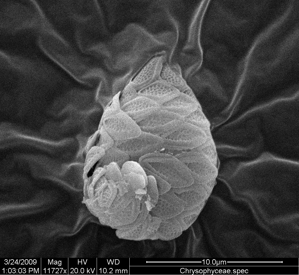 The Rem-picture shows Mallomonas valkanoviana.